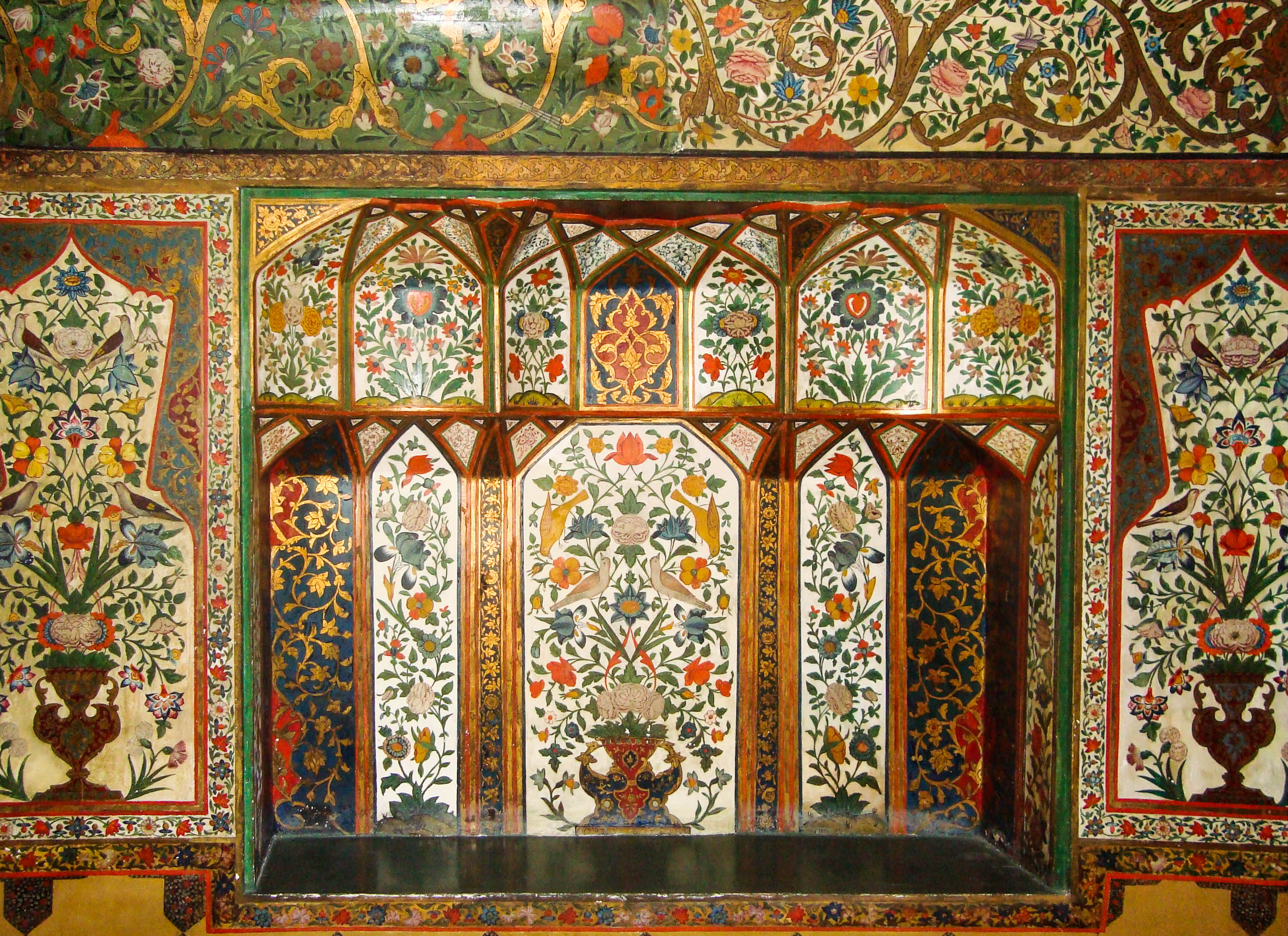 Shaki_khan_palace_image_Shaki_city_azerbaijan